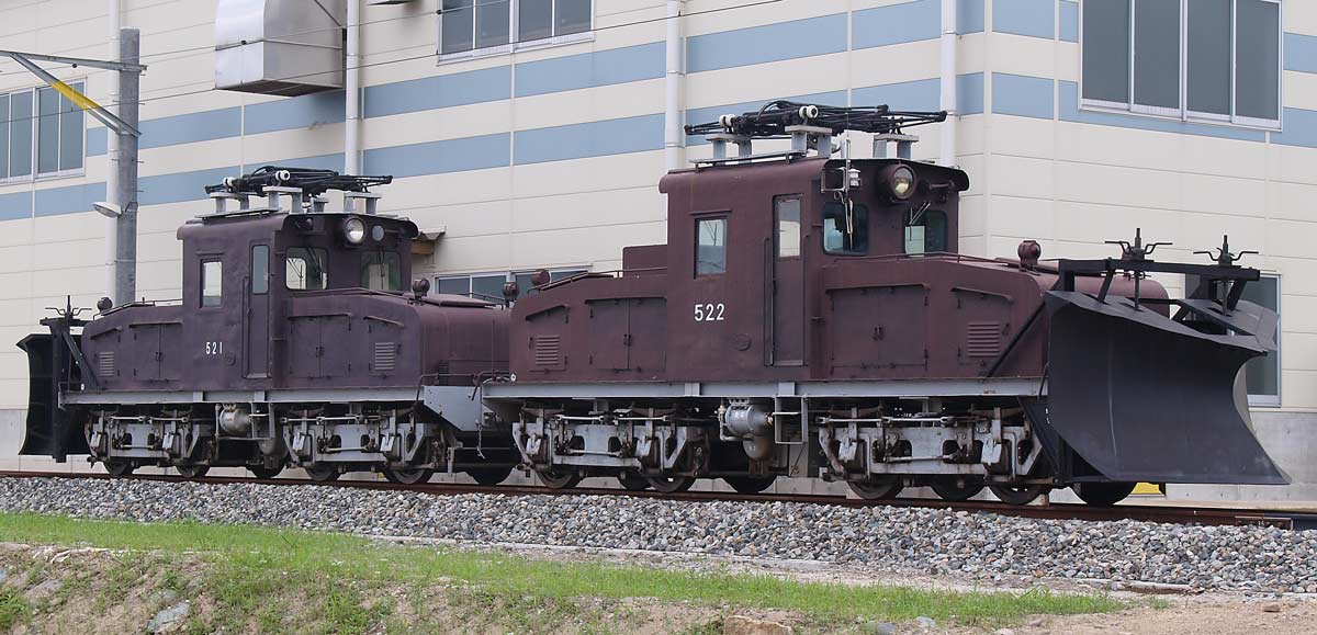 Echizen Railway Class ML521 electric locomotives 521 and 522 at Fukuiguchi